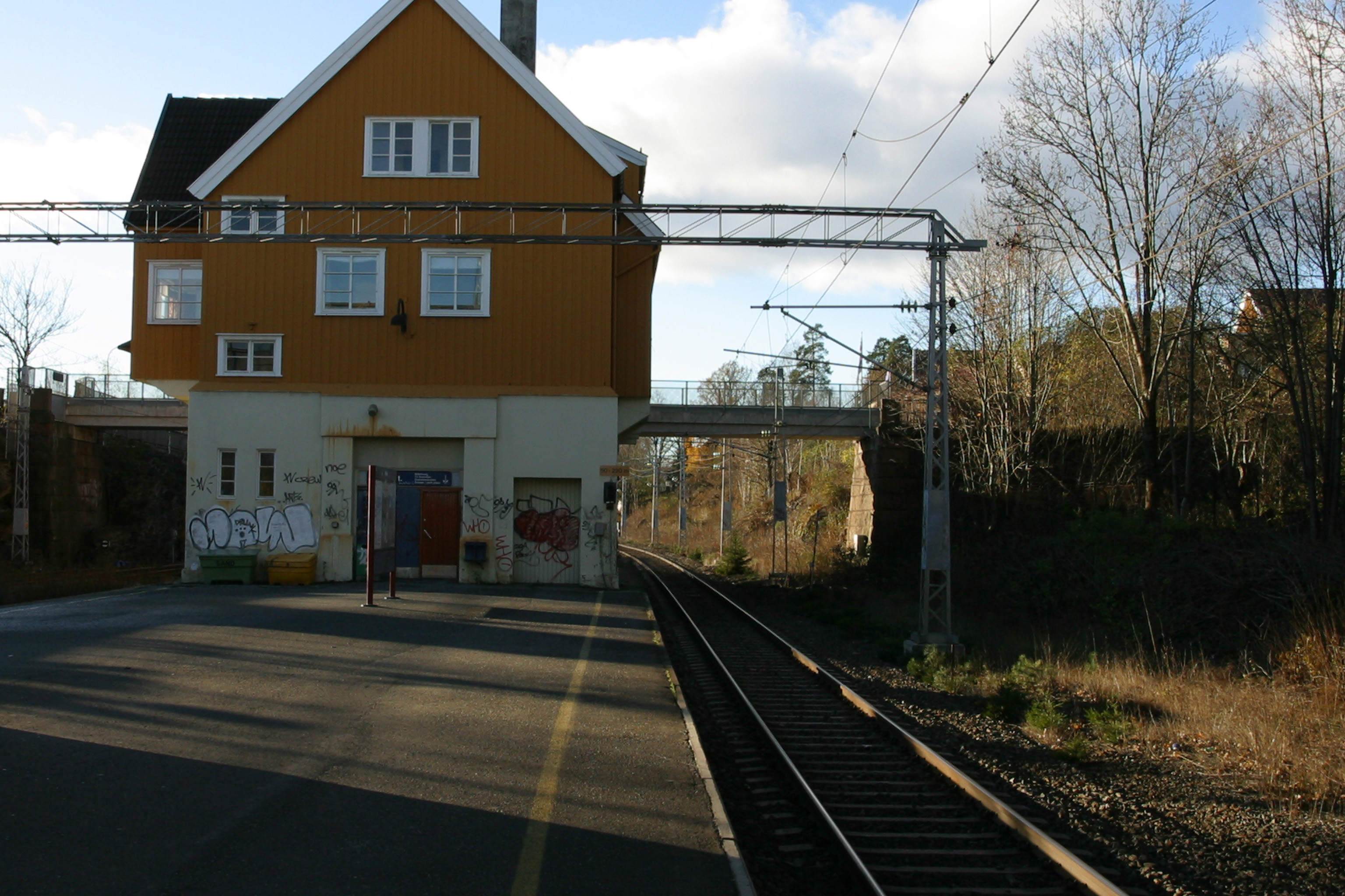 Picture of Høvik Railway Station (Norway)